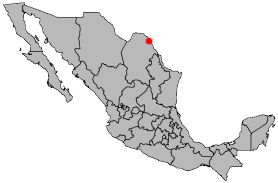 Location of Acuna, Mexico